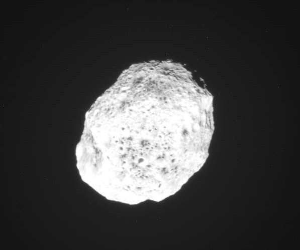 Hyperion moon, taken by Cassini on June 10, 2005 Original description: this image was taken on June 10, 2005 and received on Earth June 11, 2005. The camera was pointing toward HYPERION at approximately 173,461 kilometers away, and the image was taken using the CL1 and UV3 filters. This image has not been validated or calibrated.